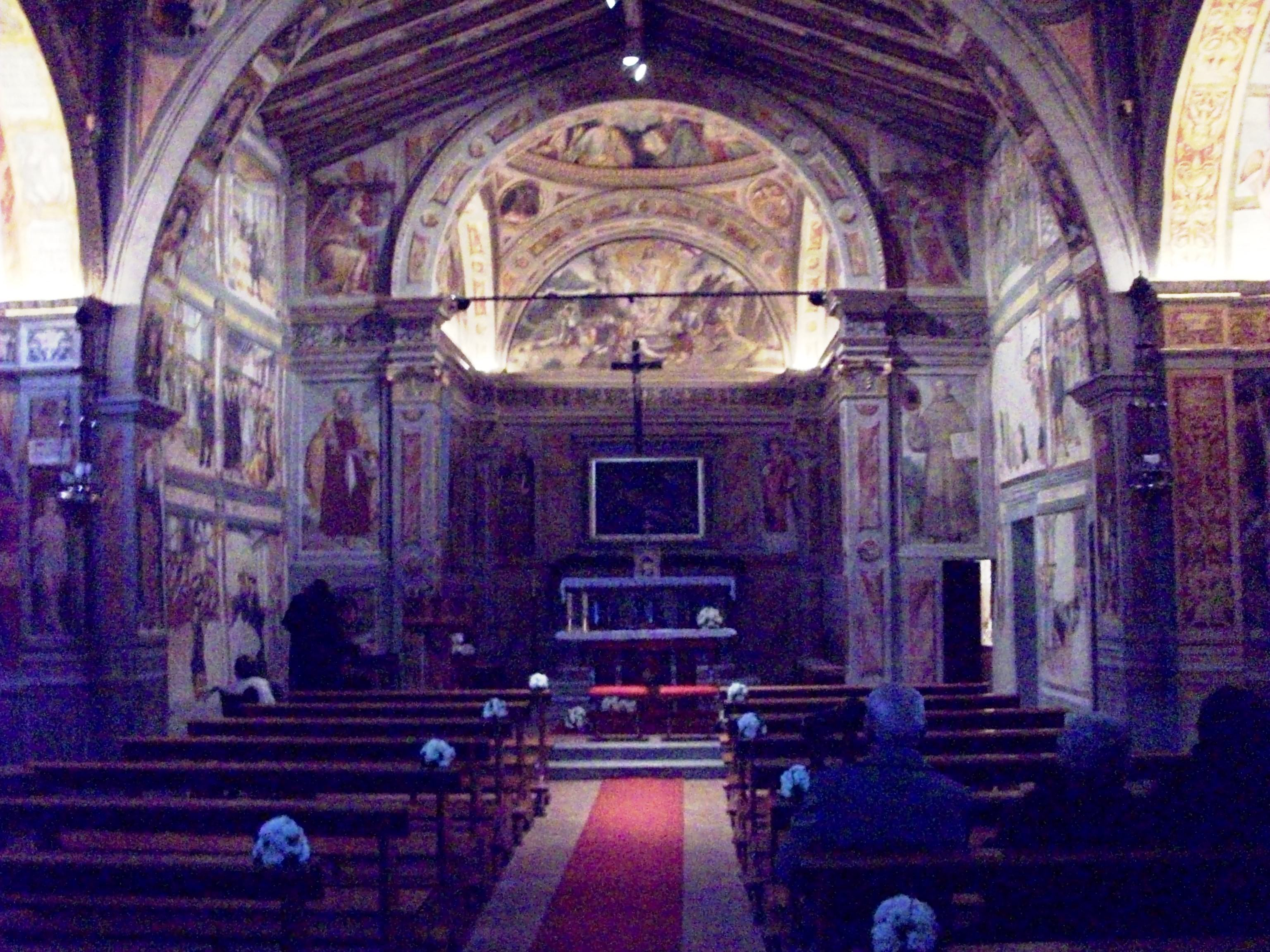 Lallio, Bergamo, Italy - Church of St. Bernard of Siena, frescoed inside